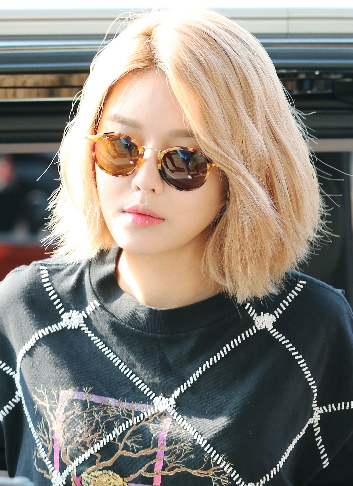 Sooyoung at Gimpo International Airport on July 4, 2015.